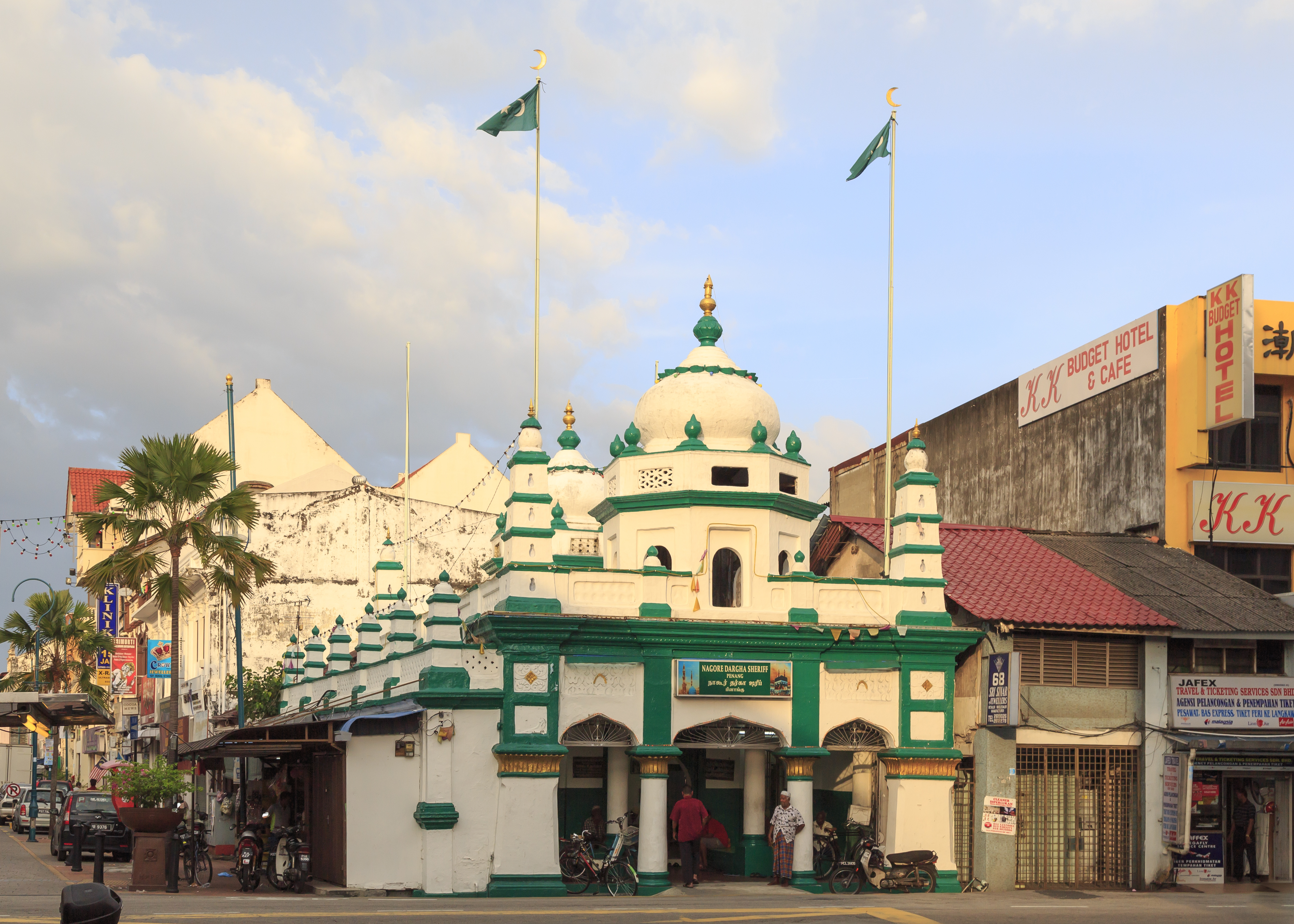 Penang, Malaysia: Nagore Durgha Sheriff (locally also Nagore Dargha Sheriff) or Nagore Shrine is a shrine to a Muslim saint located along Lebuh Chulia, at the junction with Lebuh King in the Little India of George Town, Penang.